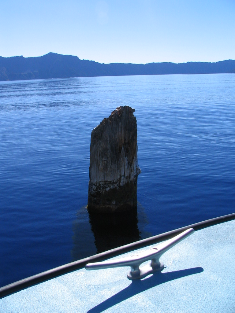 View of the "Old Man", a piece of driftwood that has been floating in the lake for at least 70 years. Picture taken 18 September 2005 at Crater Lake National Park.